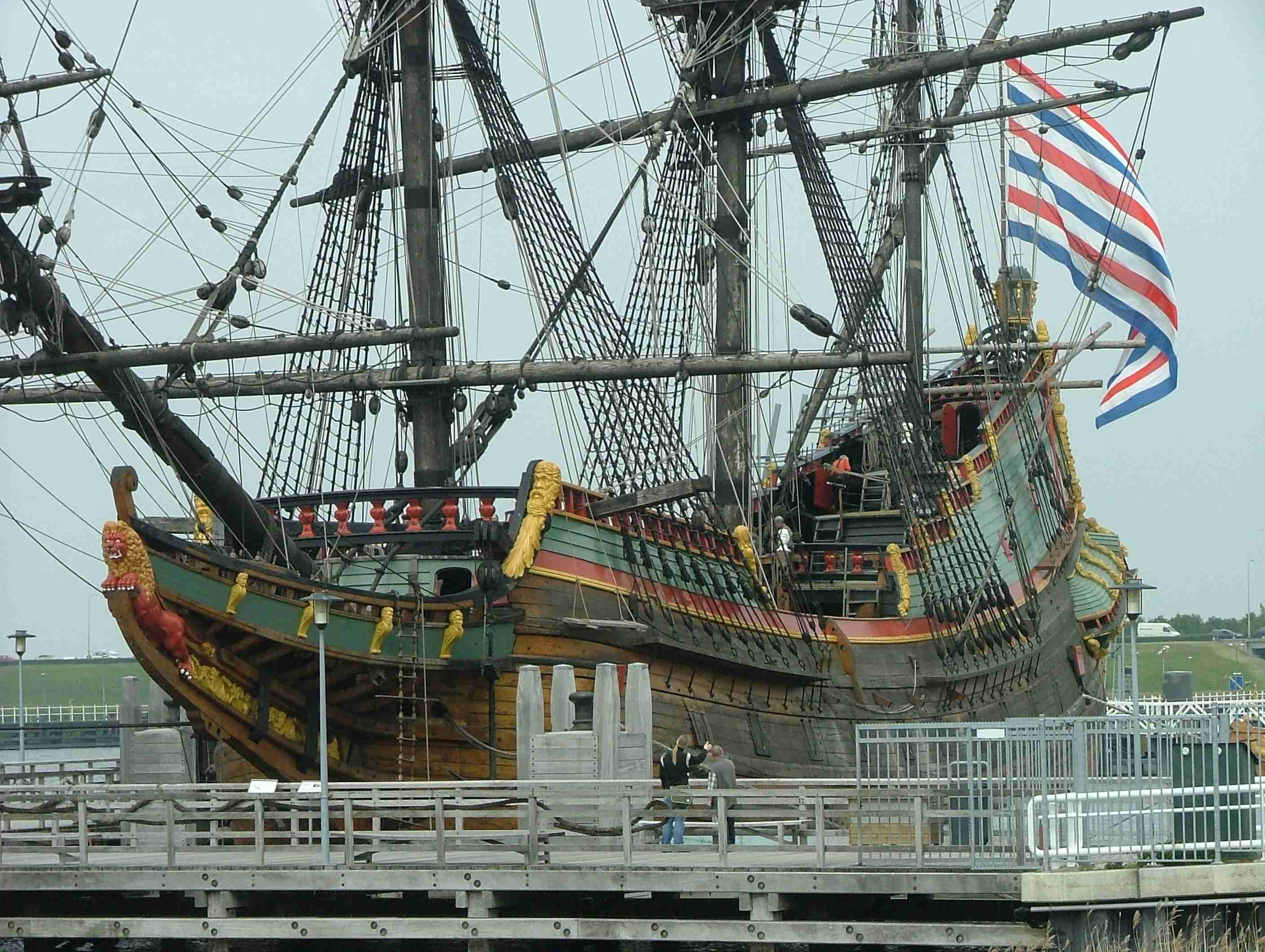 Reconstruction of the galeon "Batavia" in Lelystad, The Netherlands Eigenaufnahme vom 03.06.2006